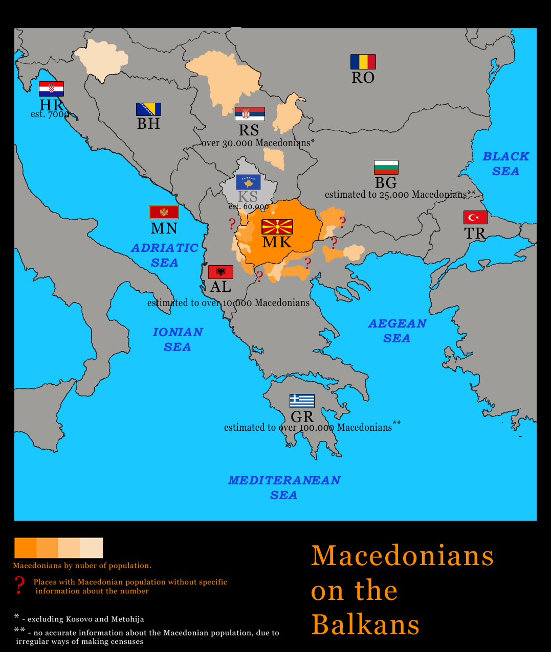 Map depicting the Macedonian population in Balkan countries based on various sources.